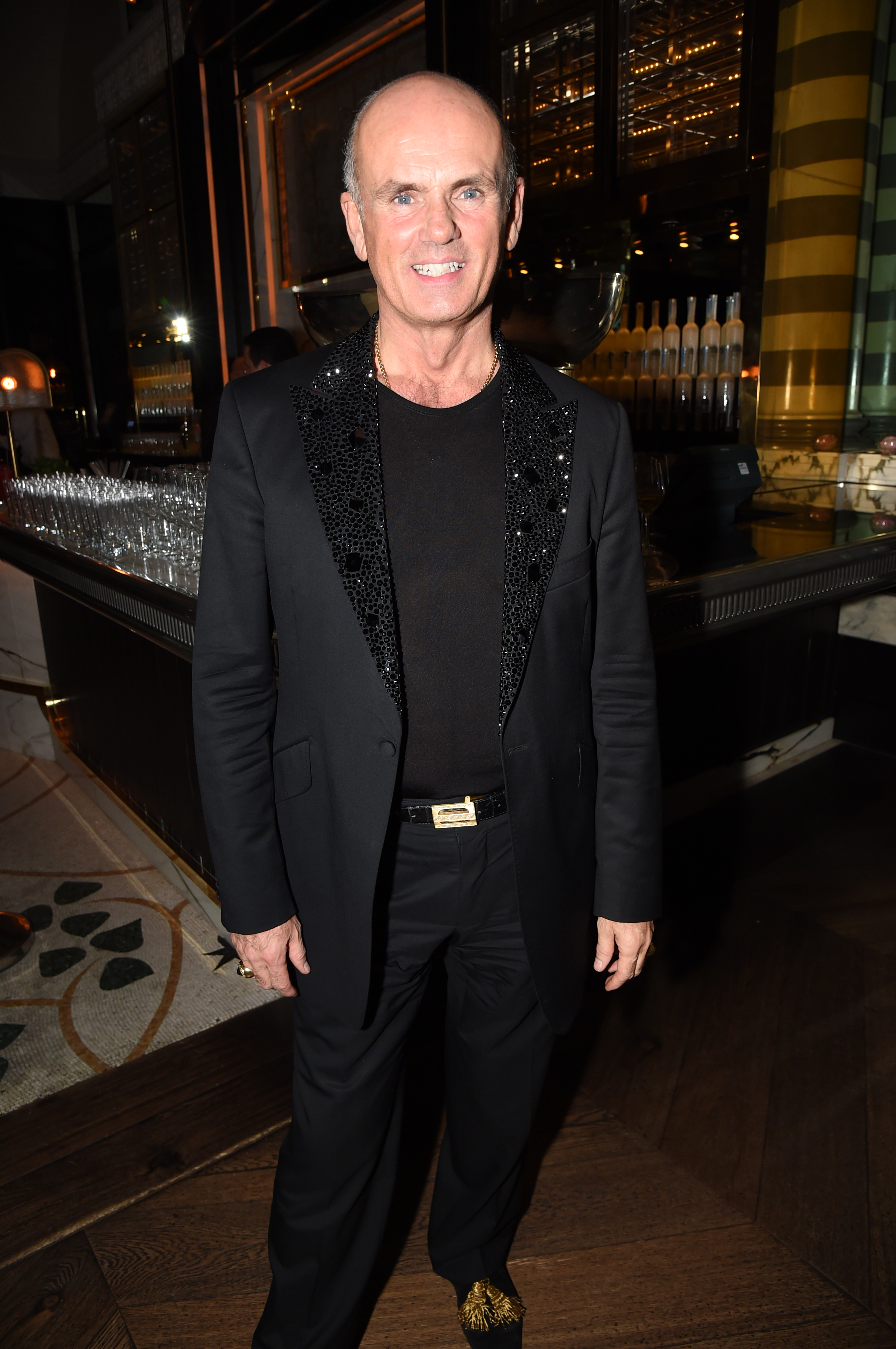 Roja Dove at The 20th Anniversary Party for 'How to Spend It' at Corinthia Hotel, London, UK - 25 November 2014